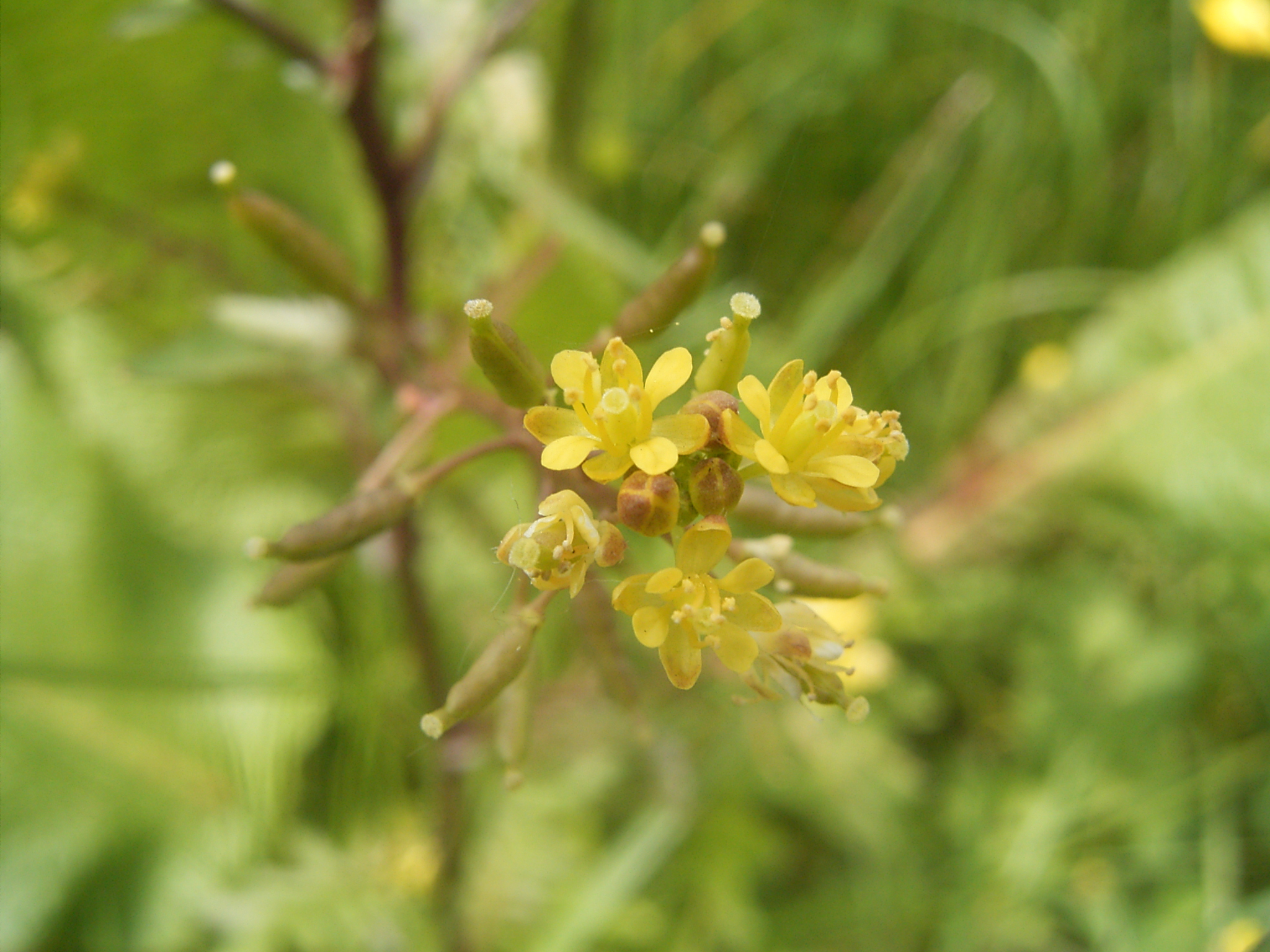 This photo shows the flowers of rorippa palustris